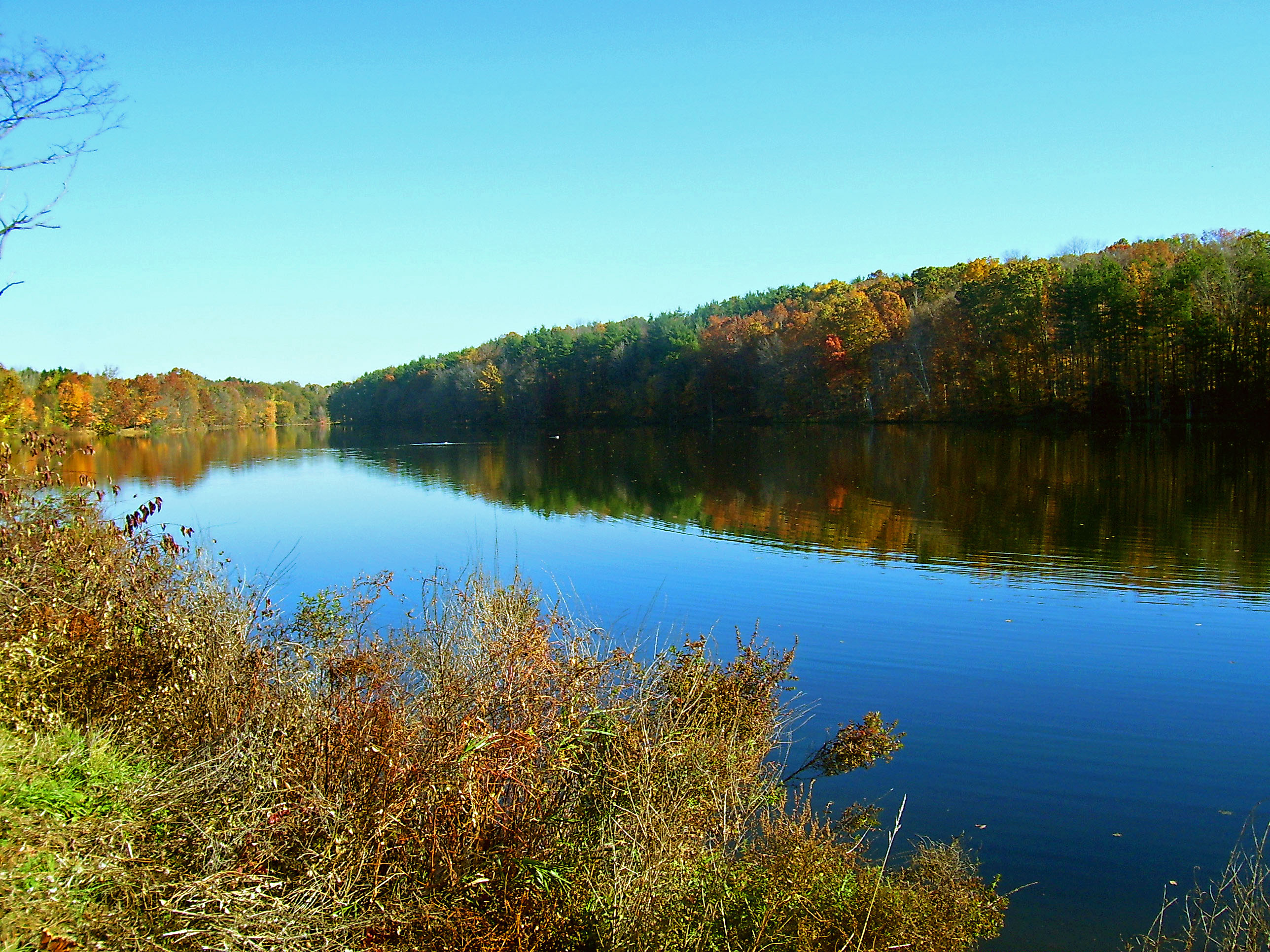 Photographed by Daniel Case on 2006-10-27 on Mount Airy Road.